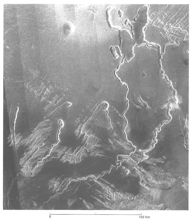 Lava channels Lo Shen Valles on Venus. Original image caption: Figure 9-11. Sinuous rifles emanate from depressions and enlarged fractures south of Ovda Regio. Segments of the channels trend parallel to the structural strike (some northeast; others northwest). Note radar-bright responses of steep channel walls that face toward the illumination. An impact crater about 12 km in diameter has disrupted the eastern channel at center right. Illumination is from the left at an incidence angle of 41 deg.